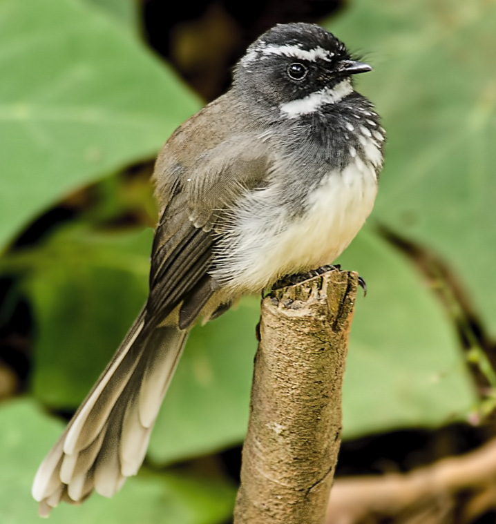 White-throated Fantail (Rhipidura albicollis)